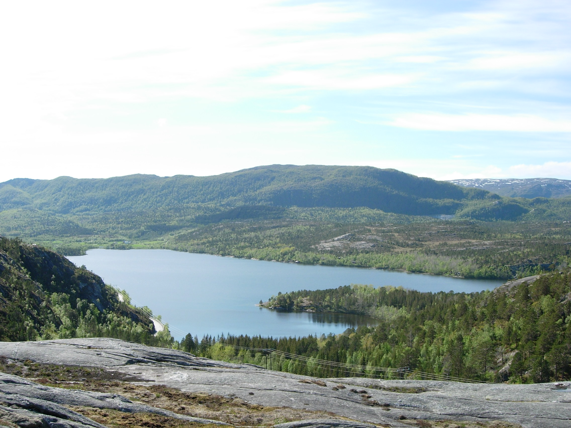 Vatnvatnet in Bodø, Norway (Vatnet farm in the upper left corner of the lake)